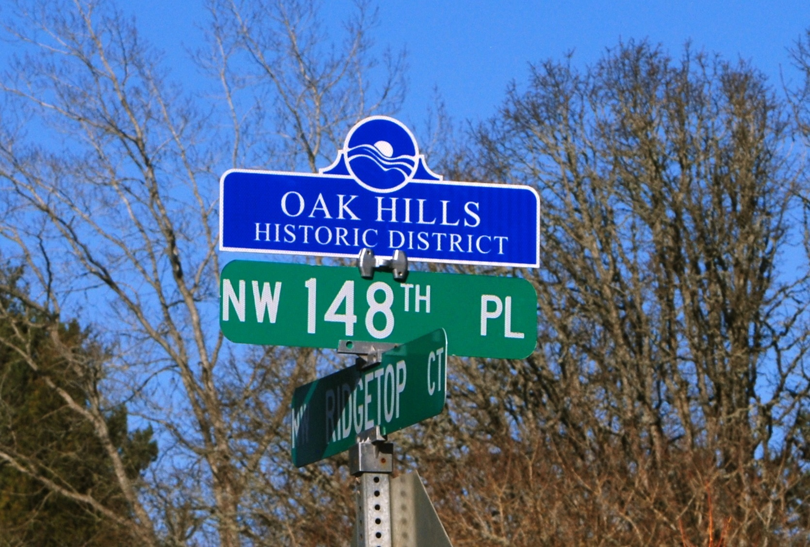 Street sign topper for the Oak Hills Historic District in the unincorporated community of Oak Hills, located west of Portland and north of Beaverton, Oregon (and at the west edge of the larger community of Cedar Mill). The blue signs were added to all street signs in the neighborhood in late 2013 or early 2014, after the community was added to the U.S. National Register of Historic Places.